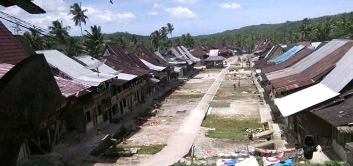 Expression error: Unrecognized word "desa".Expression error: Unrecognized word "desa".